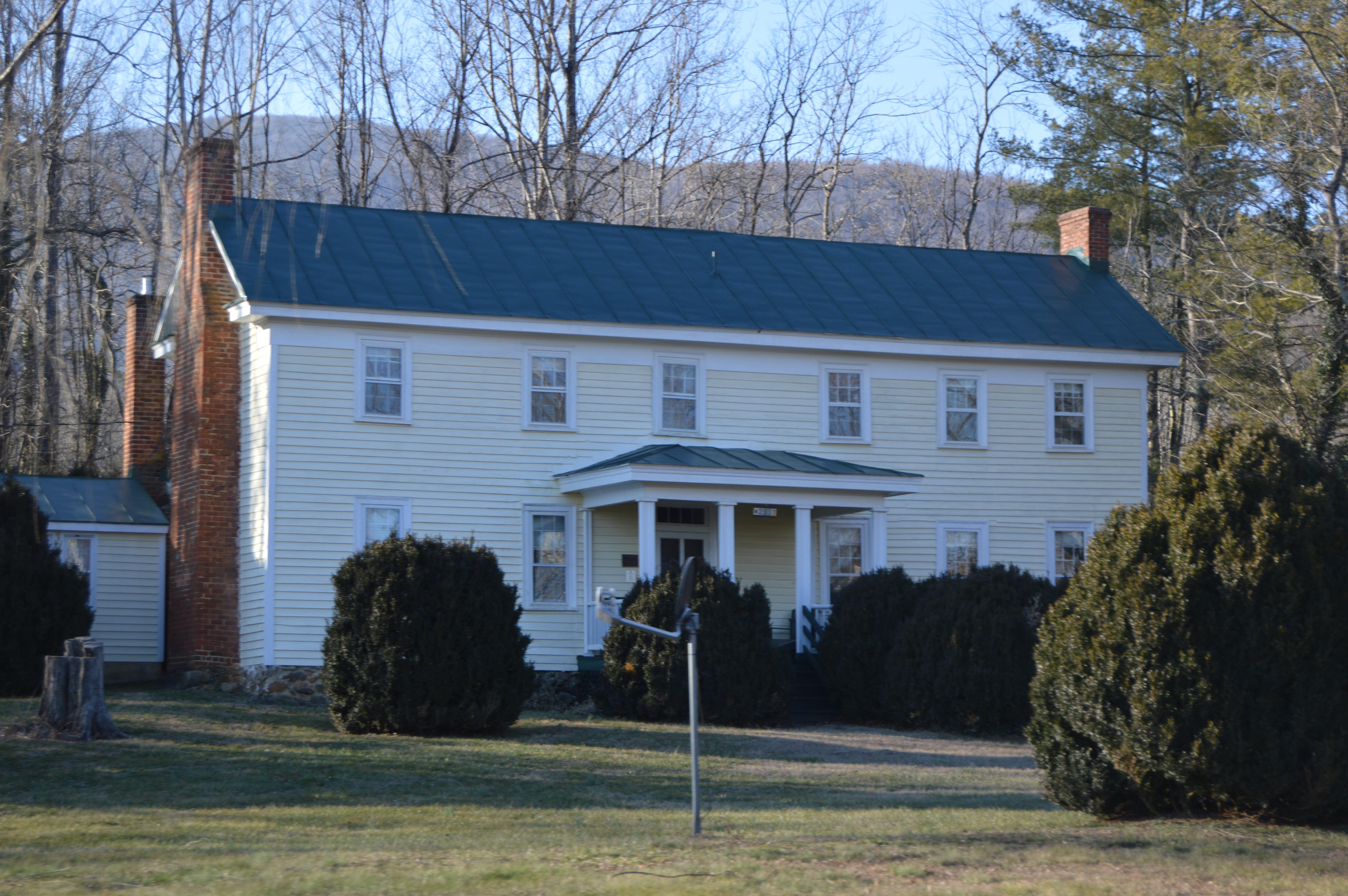 Front of the Powell-McMullan House, located at 233 McMullen Mill Road north of Stanardsville in Greene County, Virginia, United States. Built in 1842, it is listed on the National Register of Historic Places.